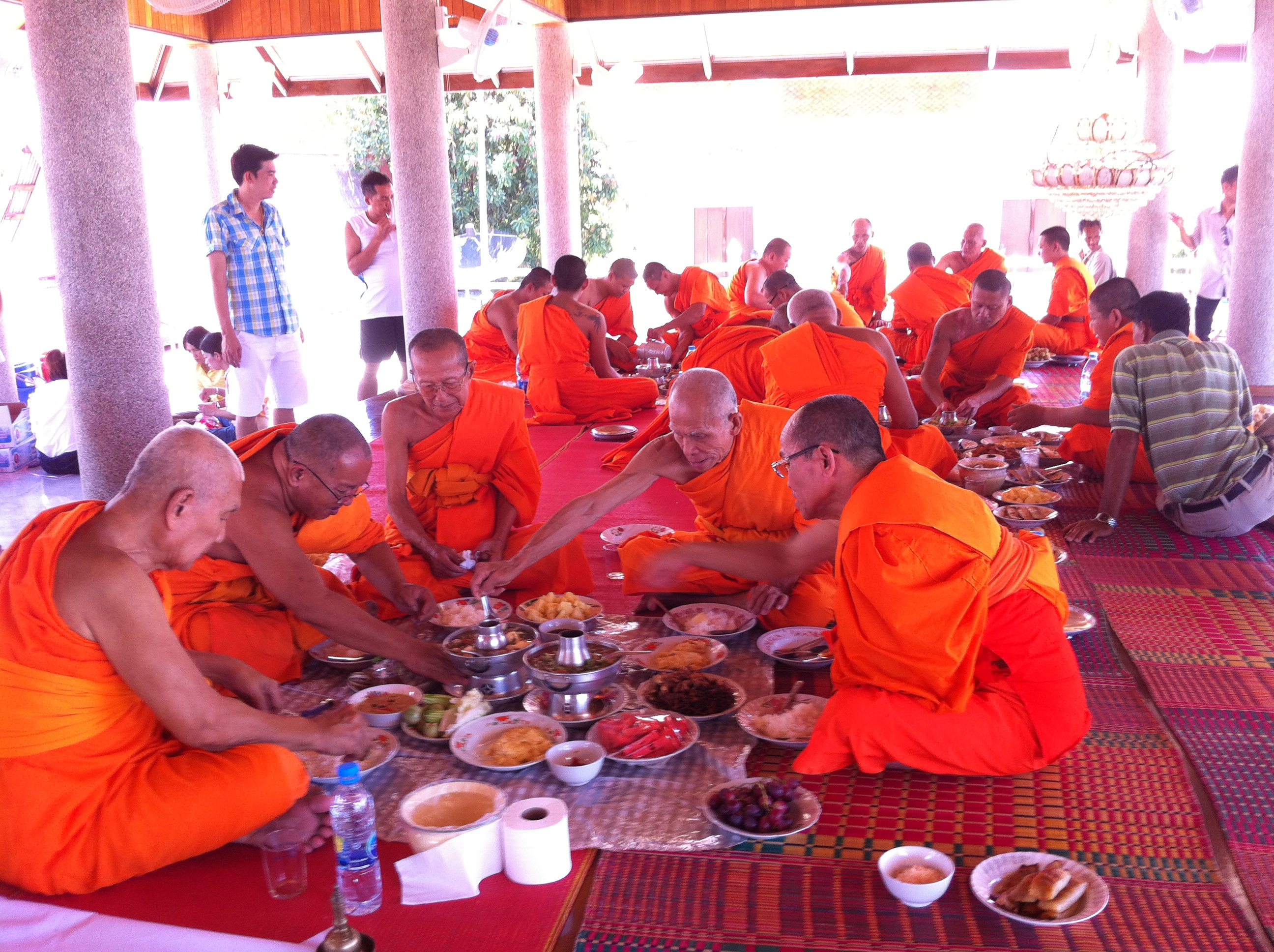 พื้นที่ของพระสงฆ์